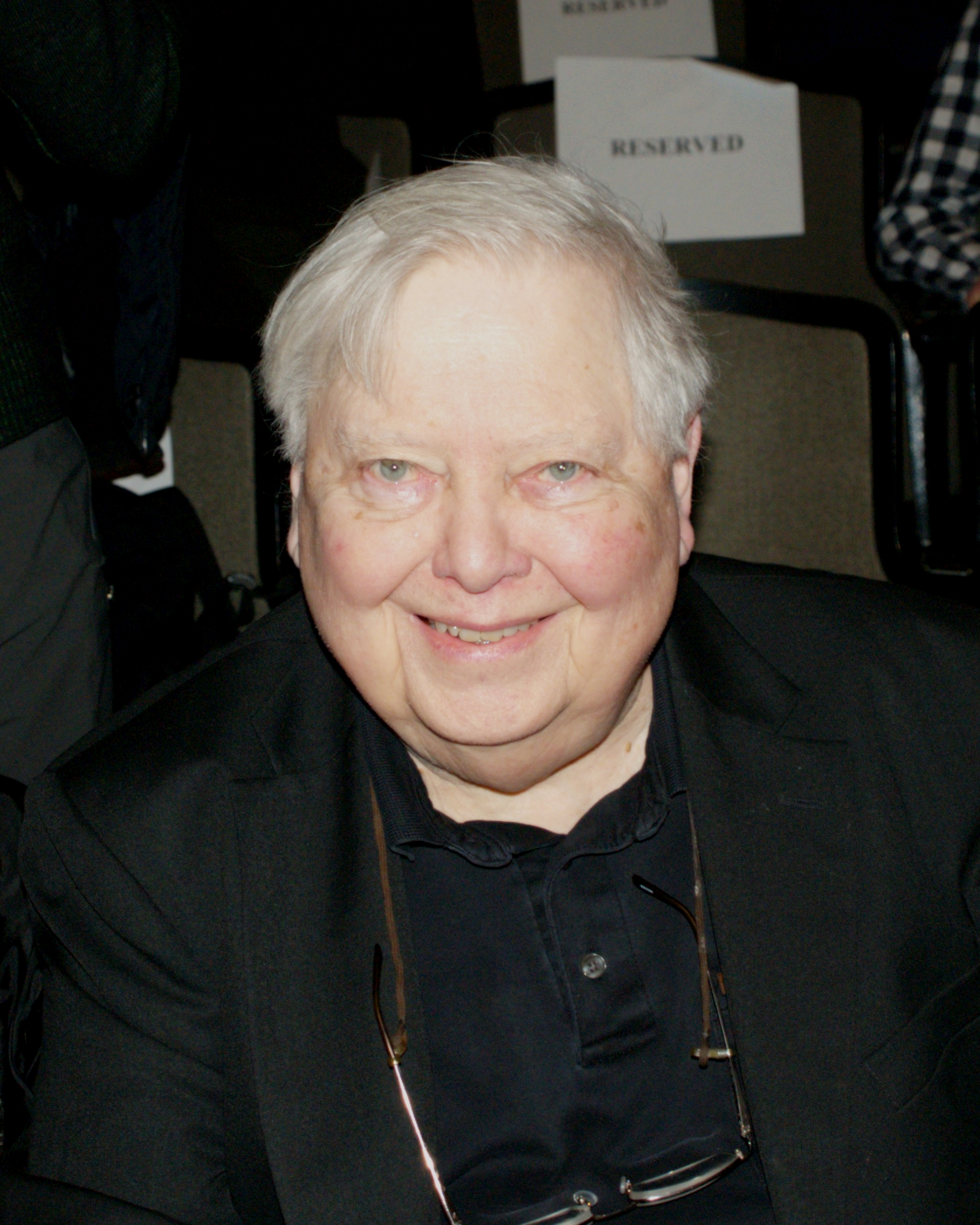 William Gass at the 2010 National Book Critics Circle awards. Gass won the Ivan Sandrof Lifetime Achievement award.